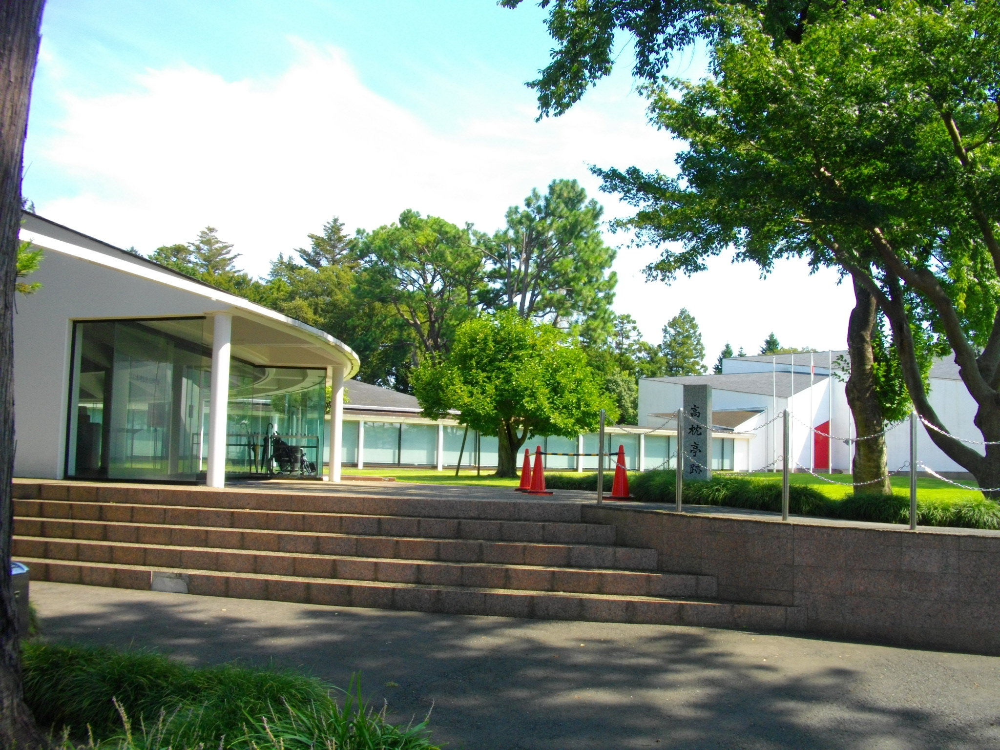 Tokugawa Museum